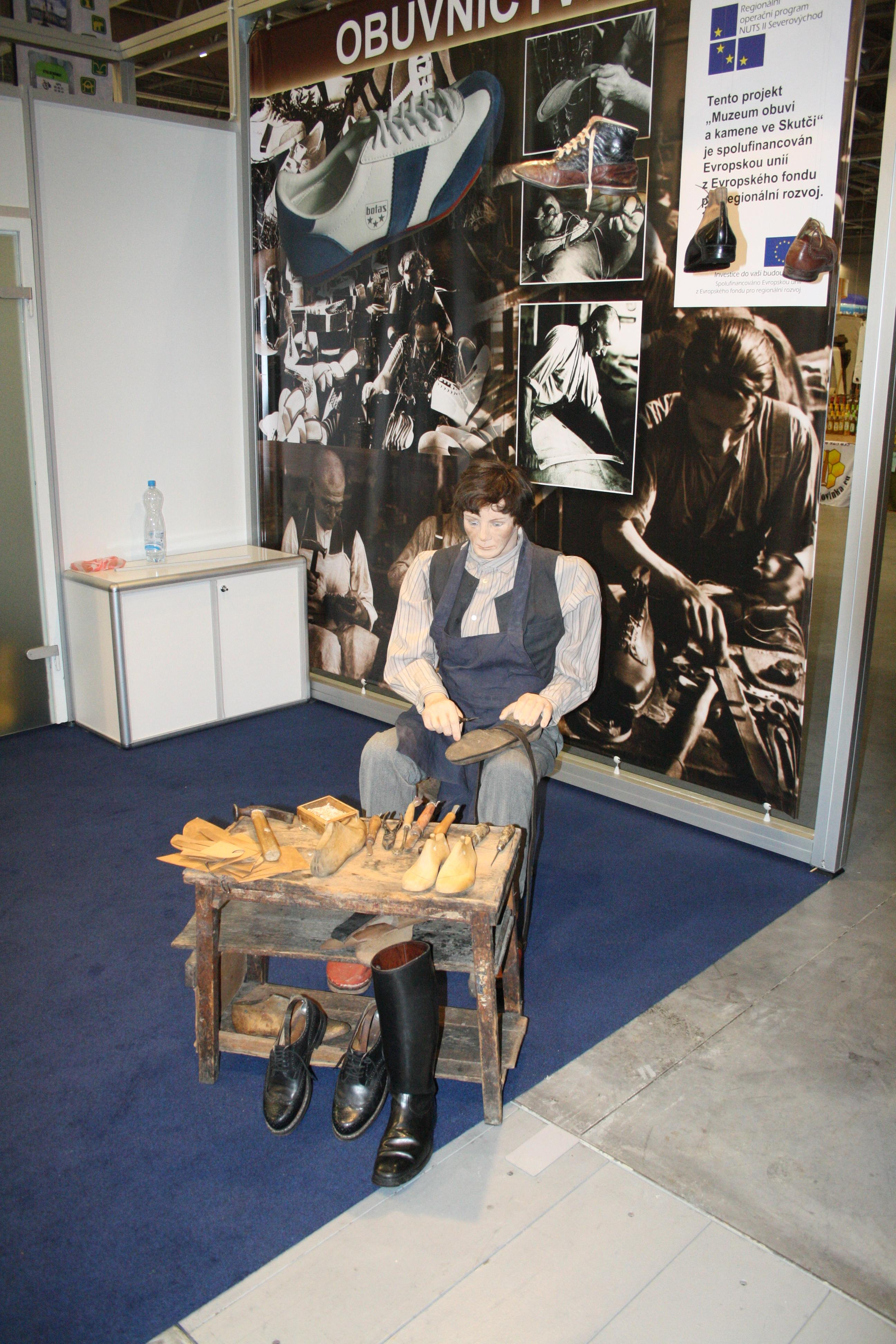 Presentation of various touristic destinations of Czech Republic.